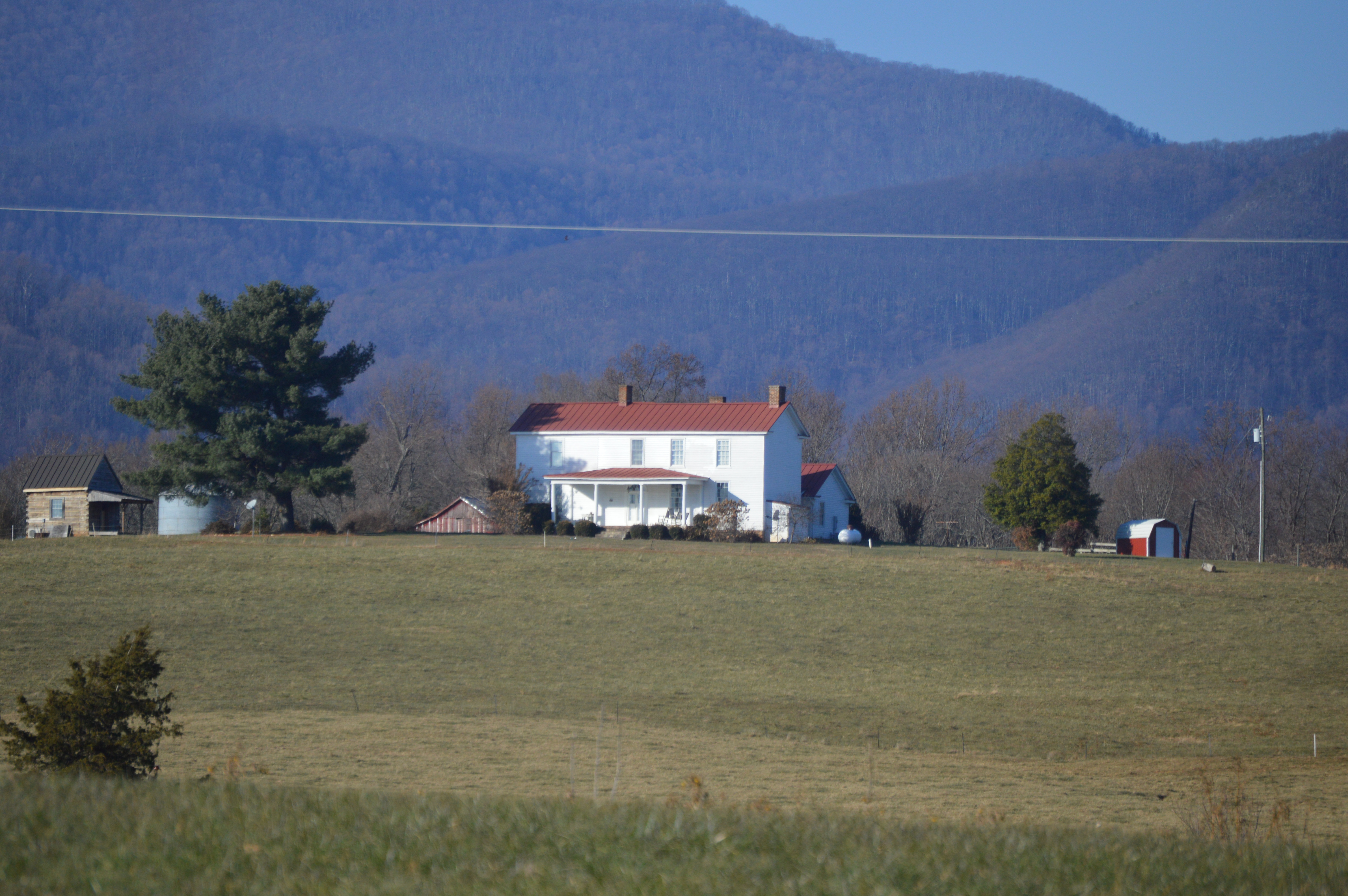 Distant view of Forest Hill, located at 713 Indian Creek Road just southwest of Lowesville in Amherst County, Virginia, United States. In the background is the Blue Ridge: the southern slopes of Page Mountain are nearest, with the eastern slopes of Scott Mountain behind them, and Cardinal Ridge is in the distance. Built in 1803, the house is listed on the National Register of Historic Places.